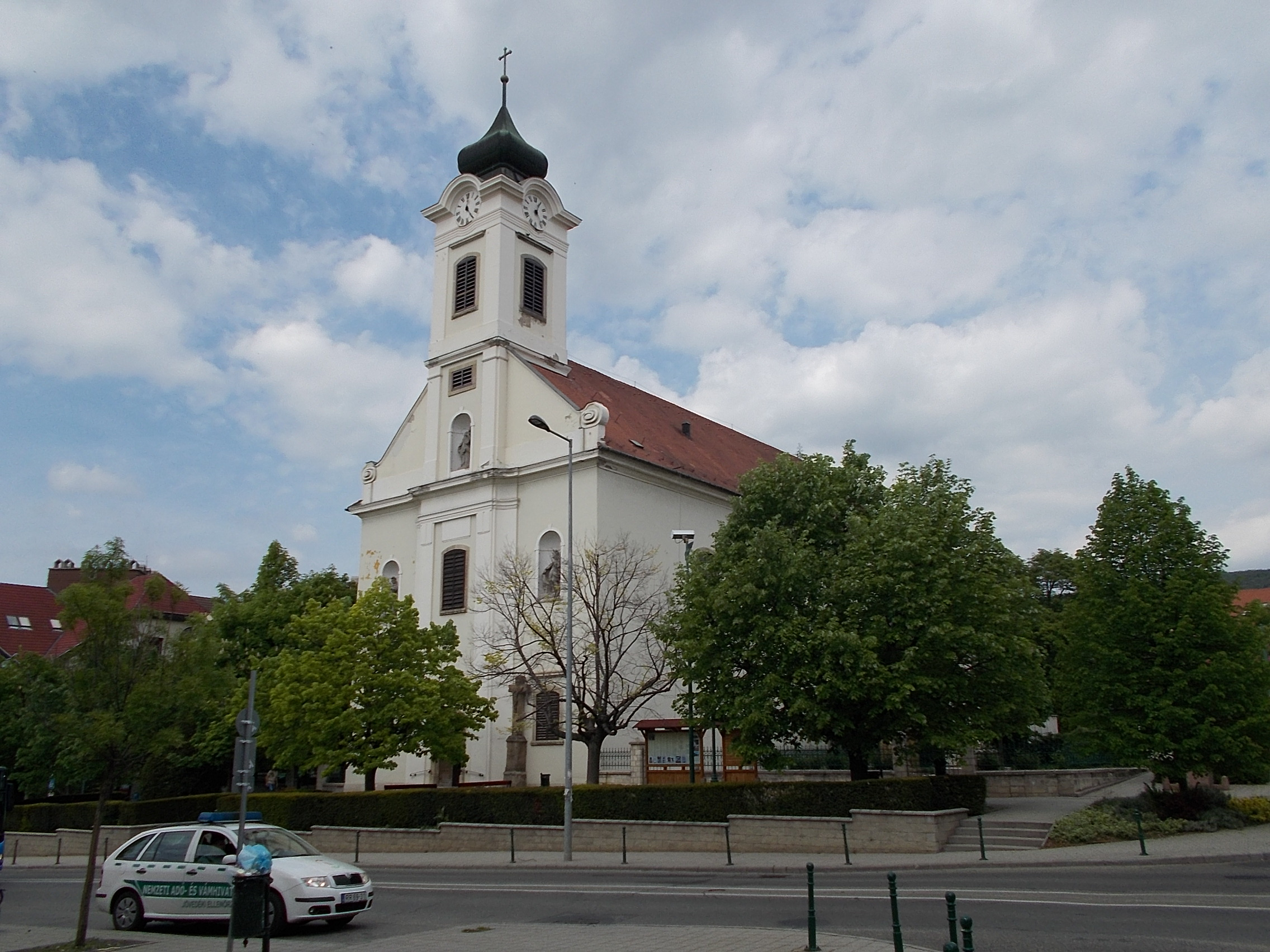 St. John of Nepomuk church. Monument ID 6931. The niches with satues of St. Anthony of Padua and the Holy Roman soldier. The tower content a stone statue of St. John of Nepomuk. - Budaörs. Templom Square